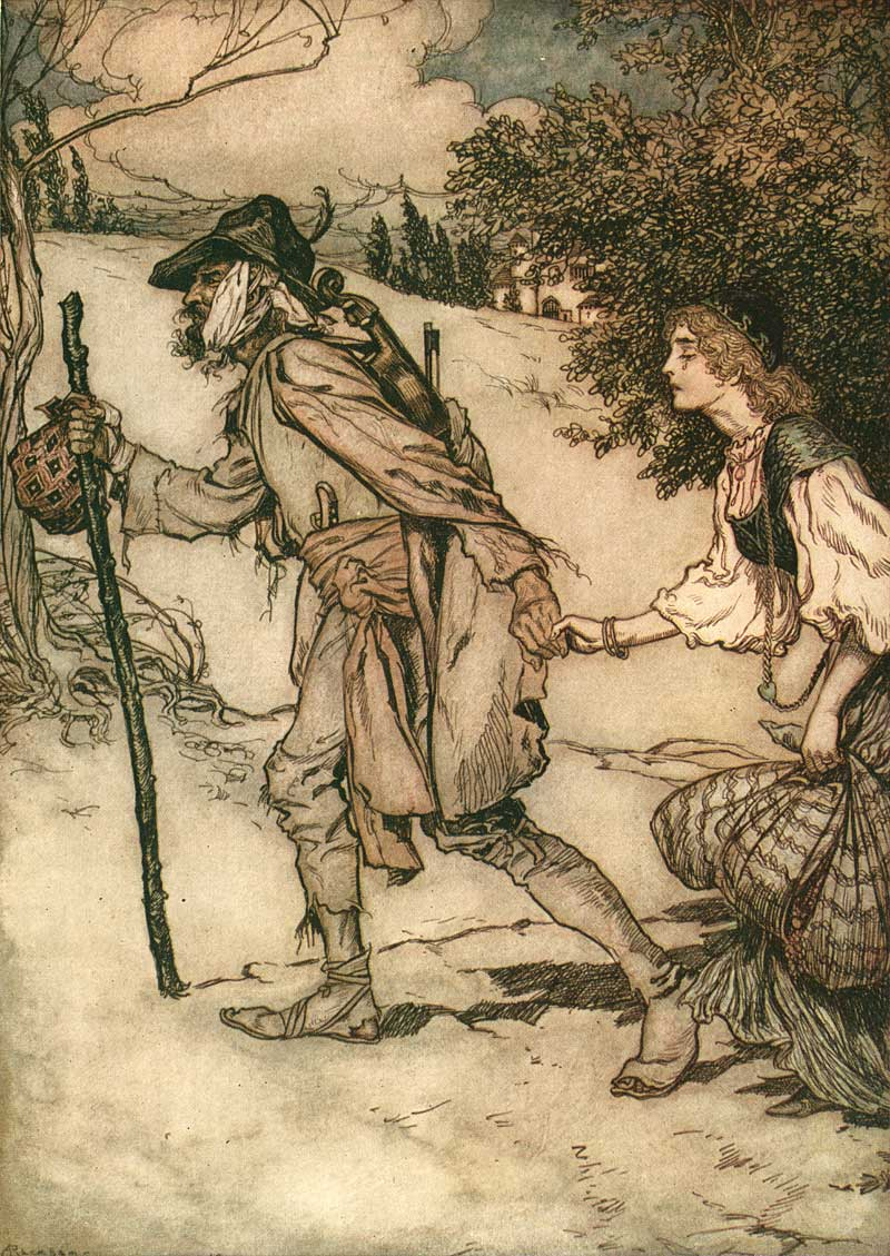 illustration to a fairy tale of brothers the Grimm "King_Thrushbeard"